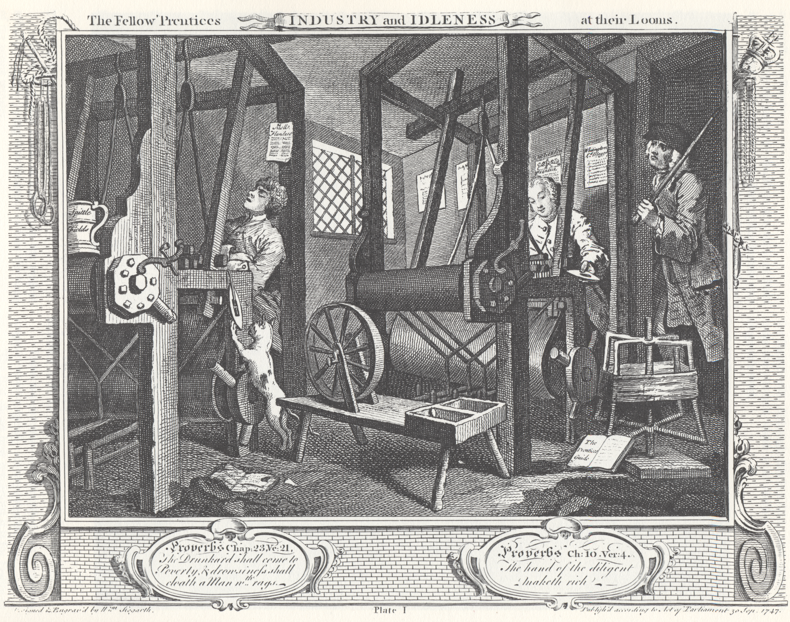 William Hogarth - Industry and Idleness, Plate 1; The Fellow 'Prentices at their Looms